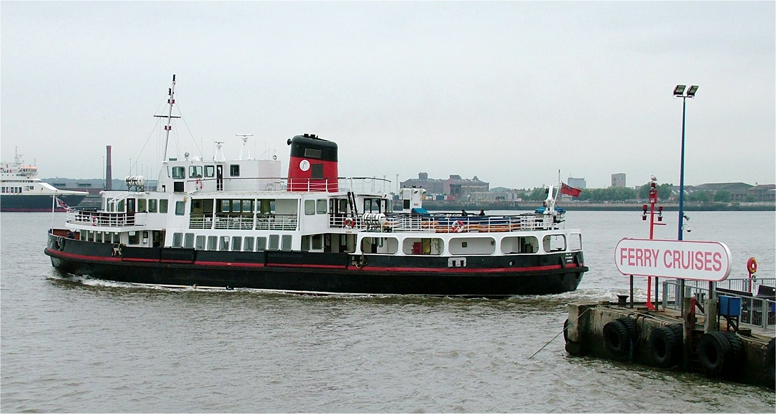 Mersey Ferry - River Mersey - Liverpool By and copyright Tagishsimon, 28th June 2005